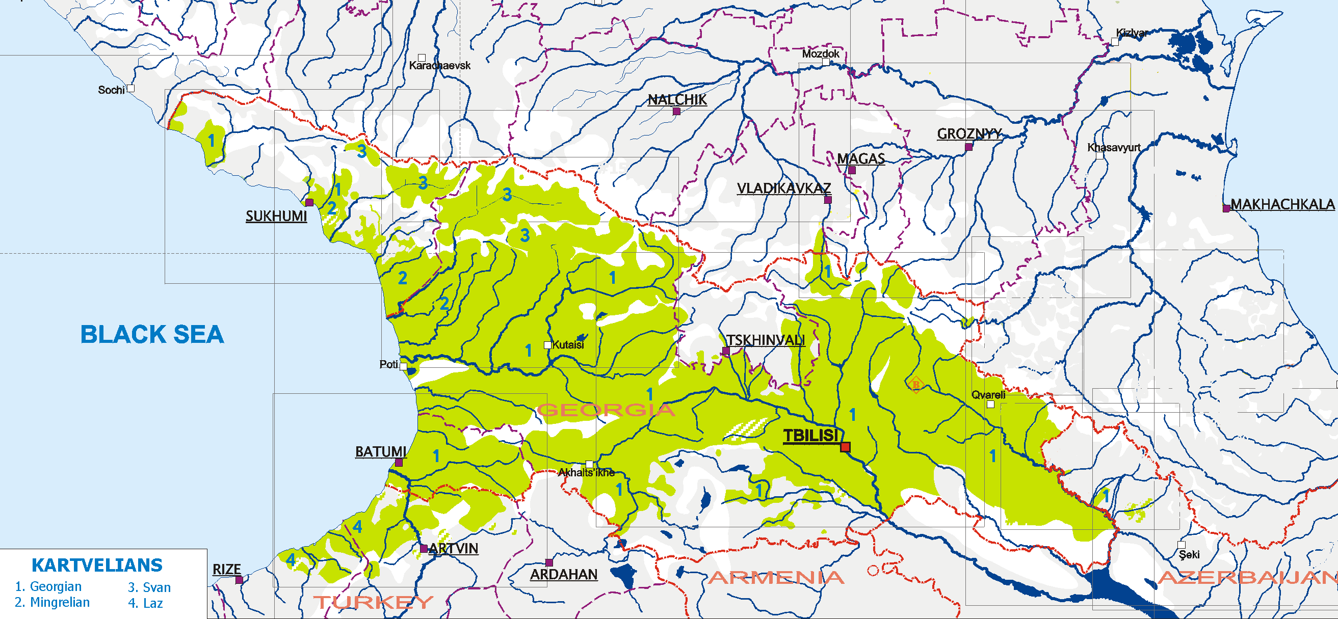 Kartvelians